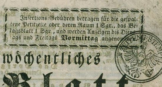 Newspaper stamp, Querfurther Kreisblatt, Germany, from 26. January 1856